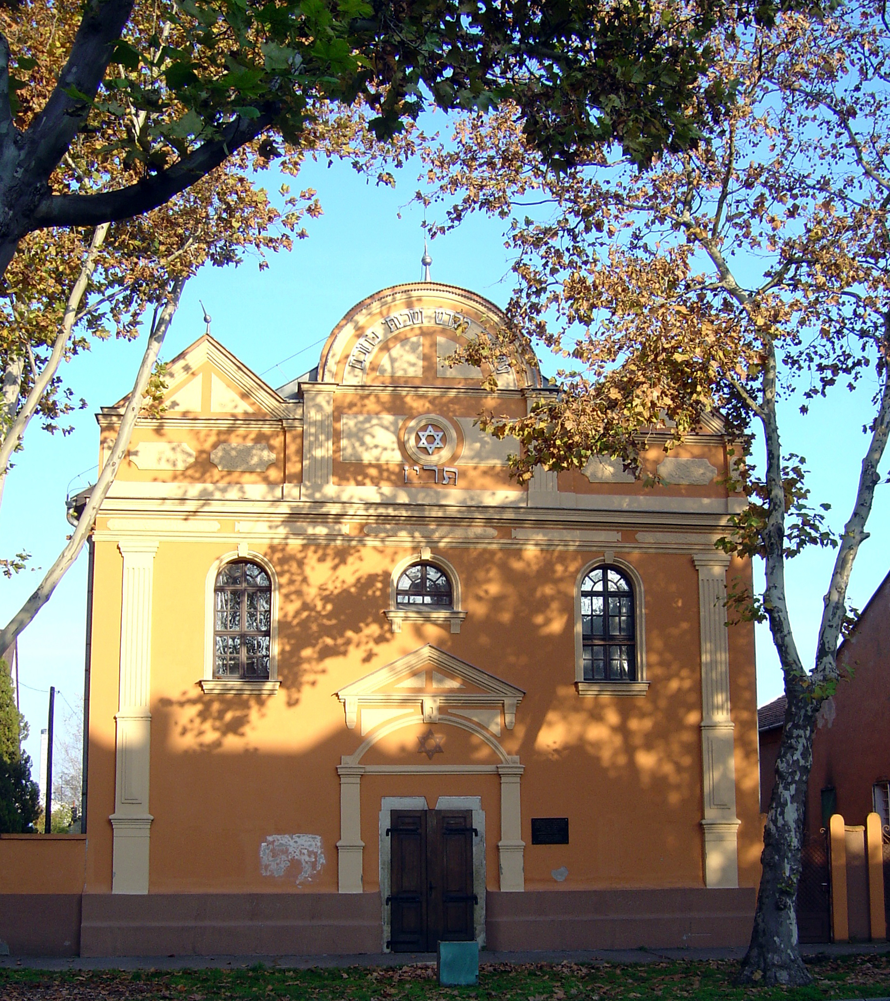 Synagogue in Mátészalka, North-Eastern Hungary, from the beginning of the 20. century